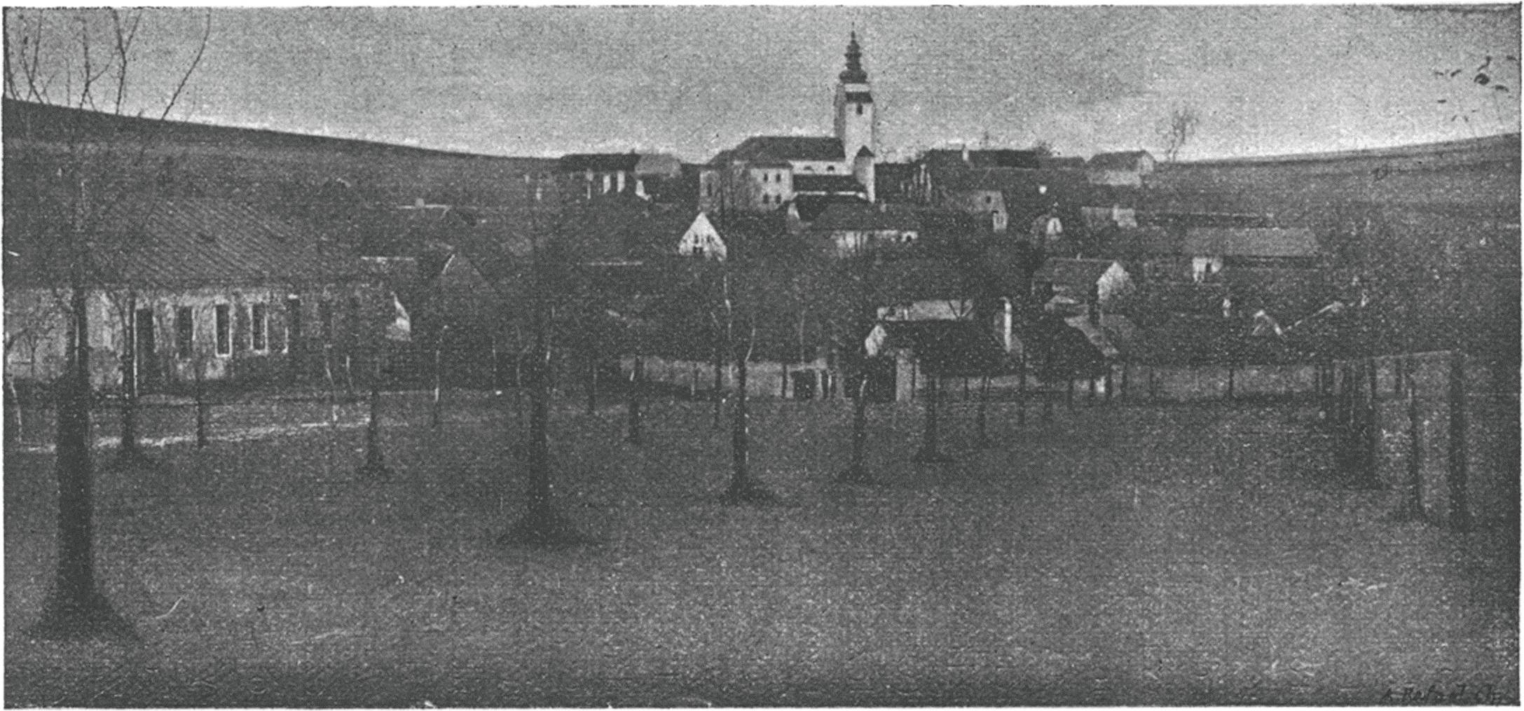 The village in Třebíč District Červená Lhota in year 1906